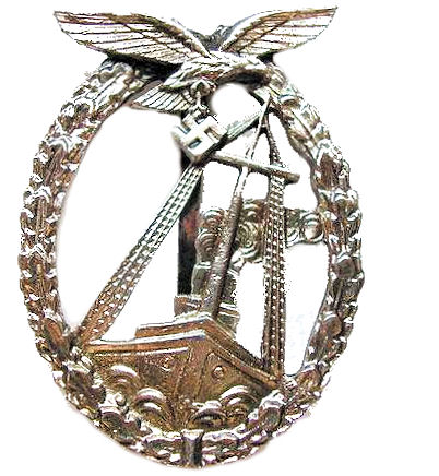 Replica of German Luftwaffe Sea Battle Badge - 1944